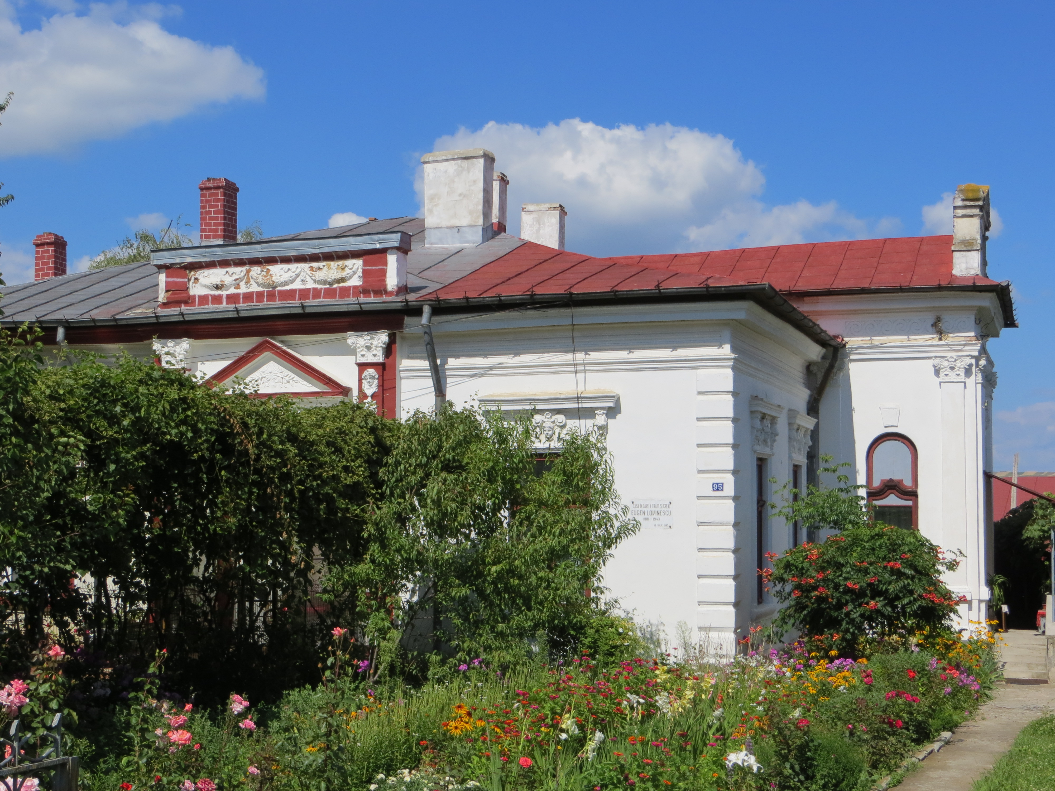 Eugen Lovinescu House, Fălticeni, Suceava County, Romania.